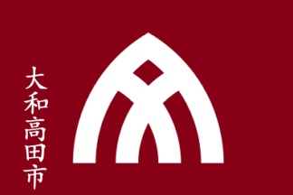 Flag of Yamatotakata Nara